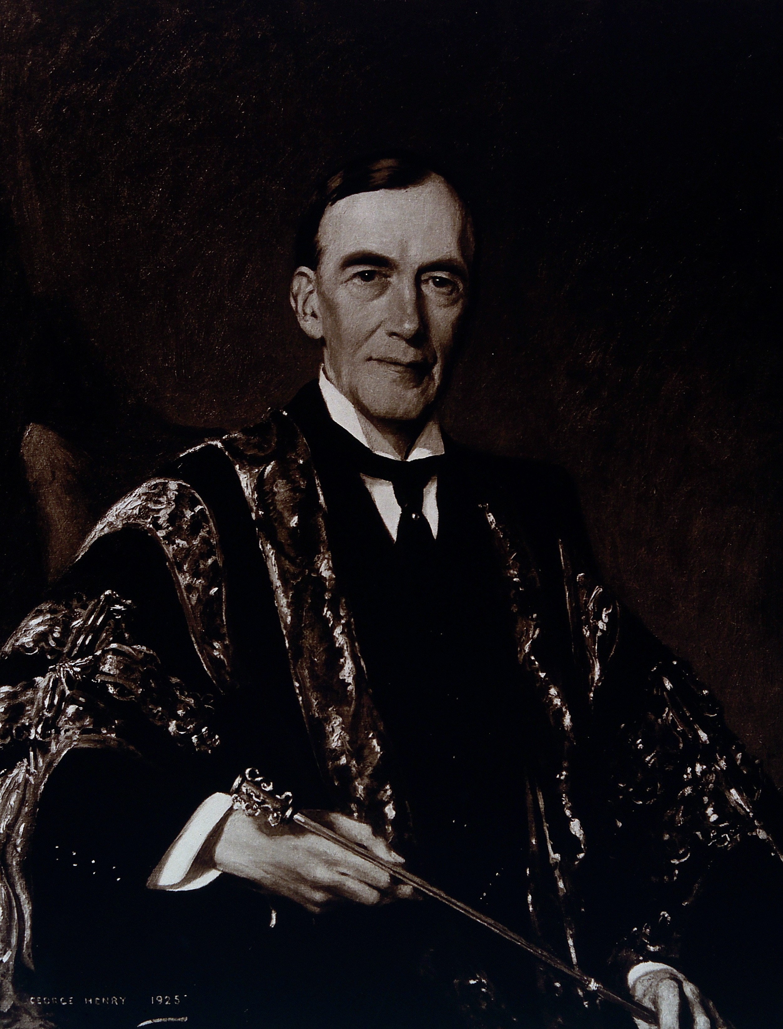 Sir Humphry Davy Rolleston. Photograph by A.C. Cooper after a painting by George Henry, 1925. Iconographic Collections Keywords: portrait photographs